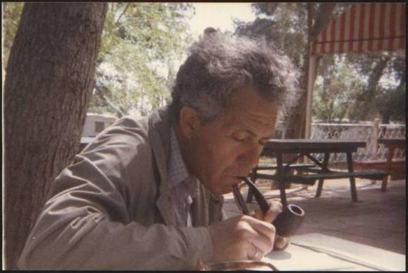 Israel Pincas, an Israeli poet. Pinkas was awarded the Israel Prize for poetry, 2005